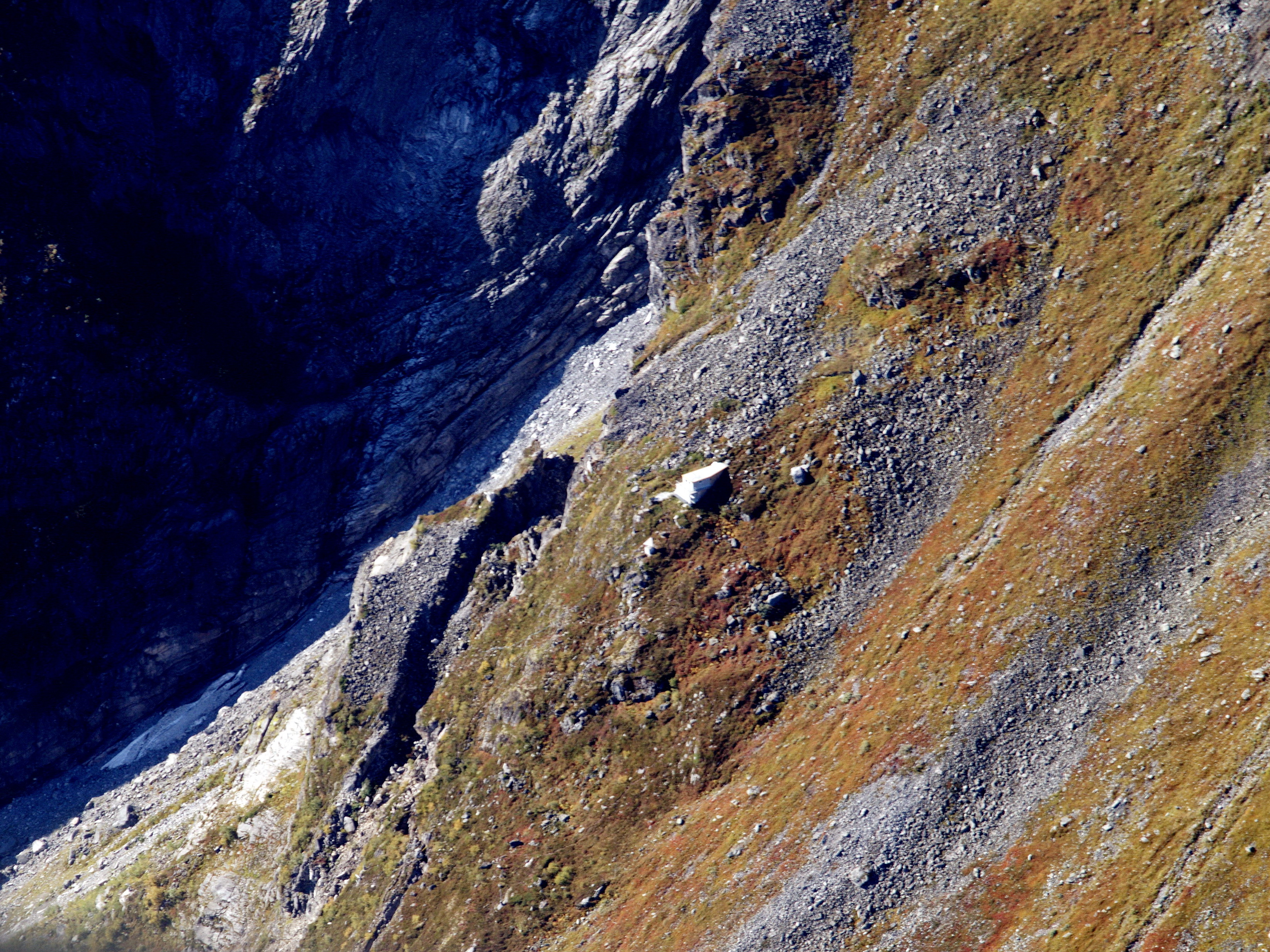 The Åkernes crevasse. The dimensions indicated by the helicopter platform to the right of the crevasse.